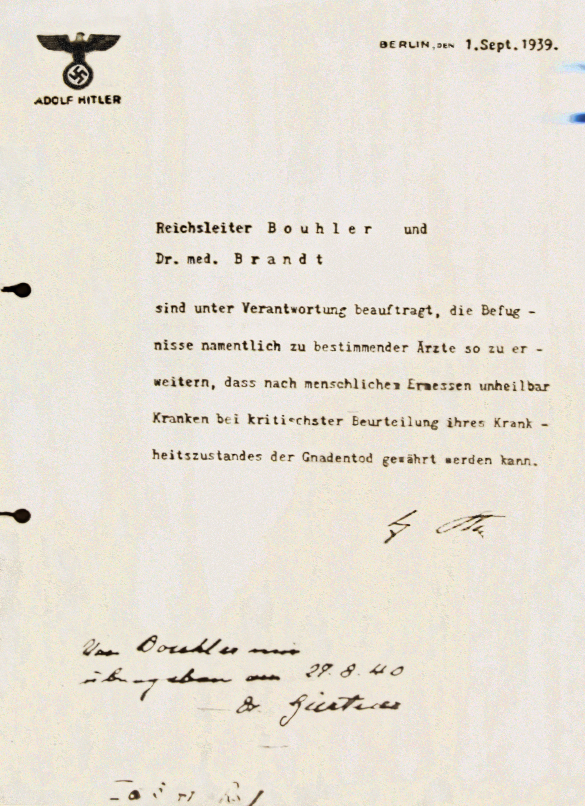 Hitler's permission to grant euthanasia to incurably sick patients. Picture taken at Nuremberg documentation centre museum. The wording of the edict in